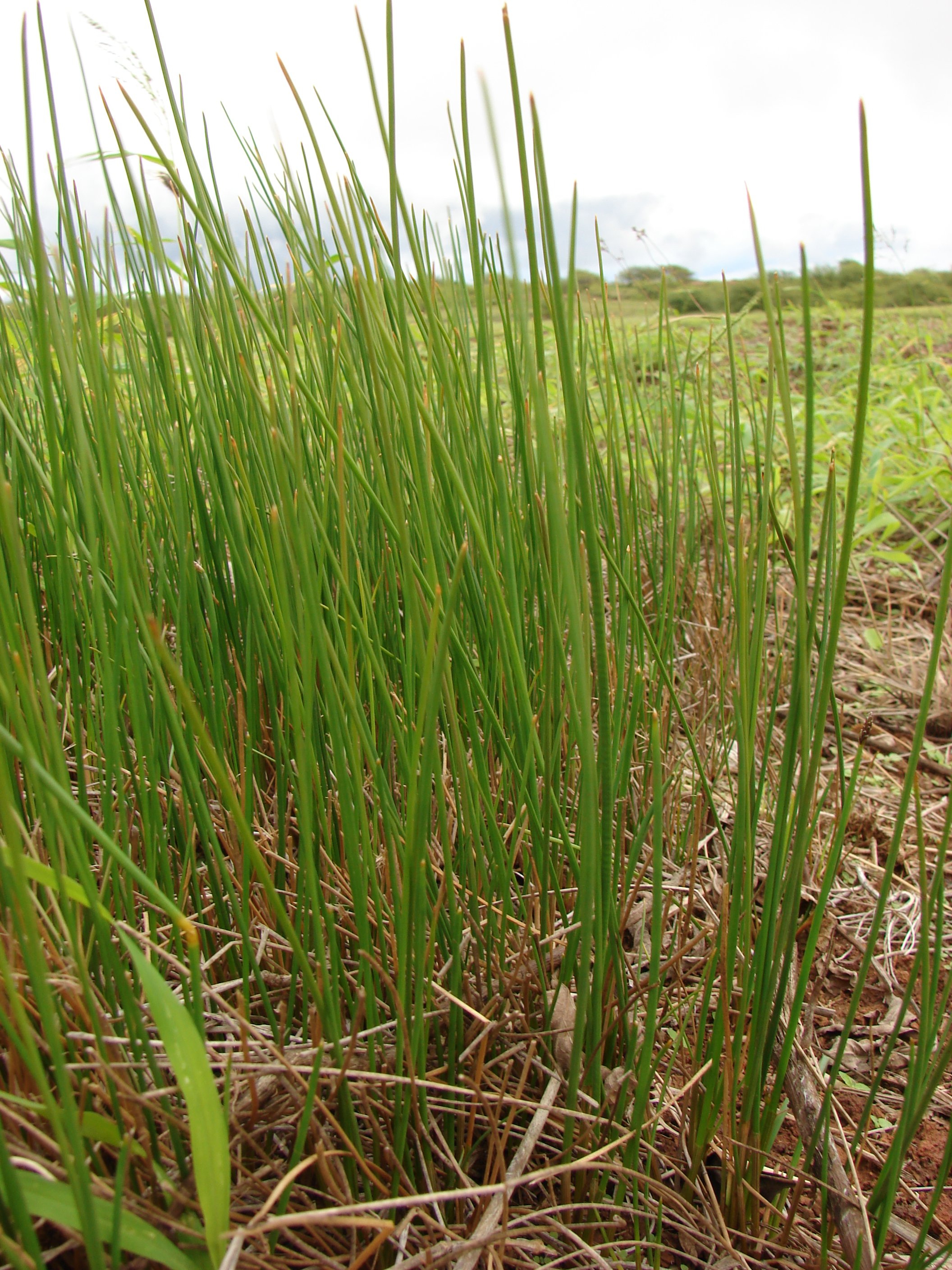 Eleocharis calva (habit in wetland). Location: Kahoolawe, Lua Kealialalo